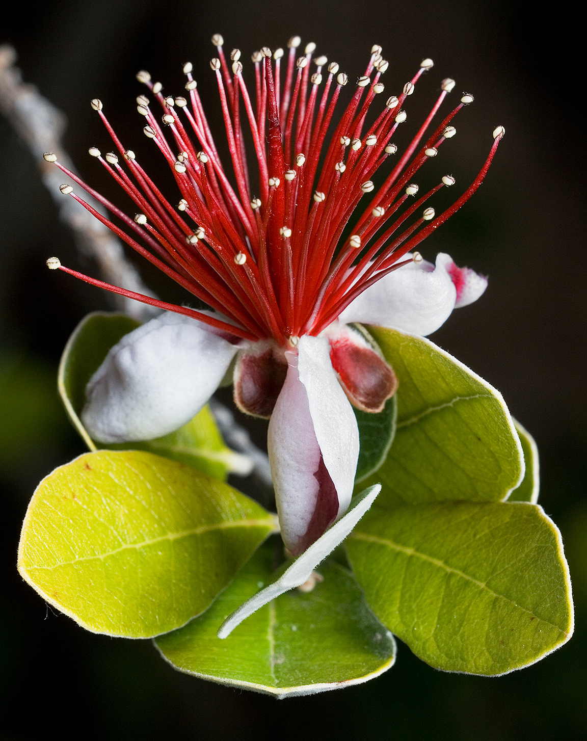 Feijoa sellowiana in Tasmania, Australia Camera data Camera Canon EOS 400D Lens Canon EF 70-200mm F4L Flash Shoot through umbrella right Focal length 100 mm Aperture f/11 Exposure time 1/160 s Sensivity ISO 100